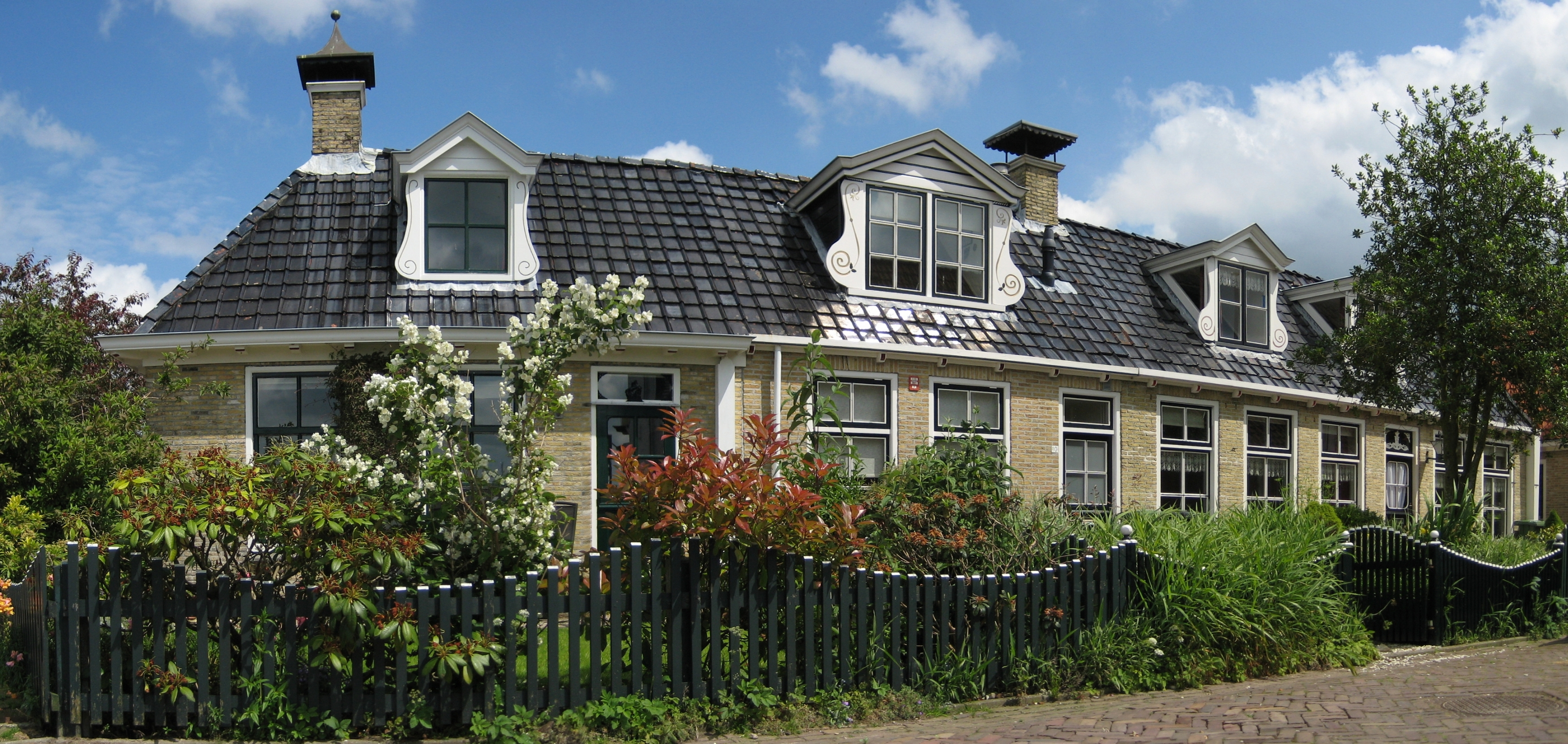 Four houses in Grou, a village in the Dutch province of Fryslân.